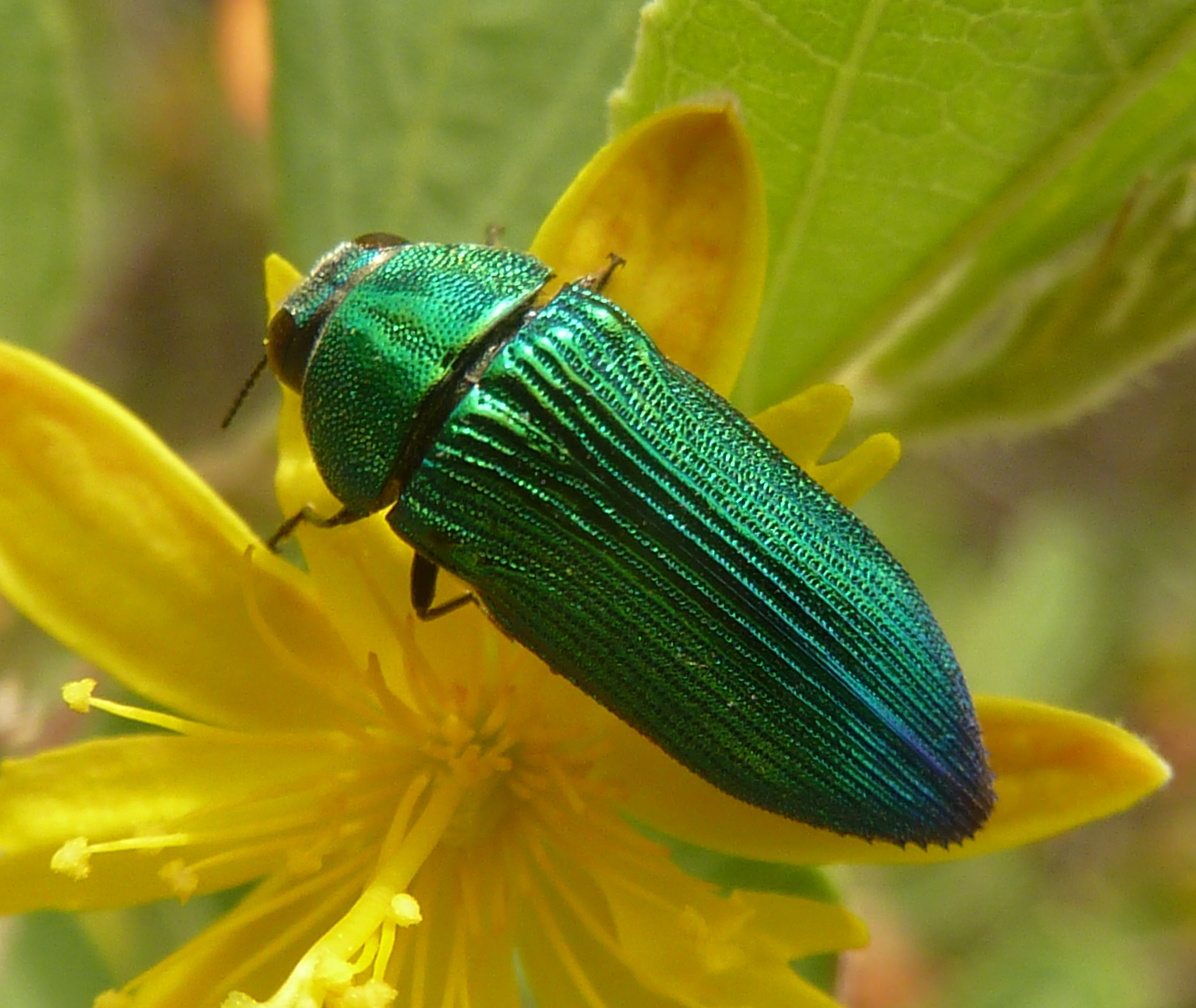 A female Glittering jewel beetle feeding on flowers of Grewia flava at Zoutpan near Pretoria, South Africa